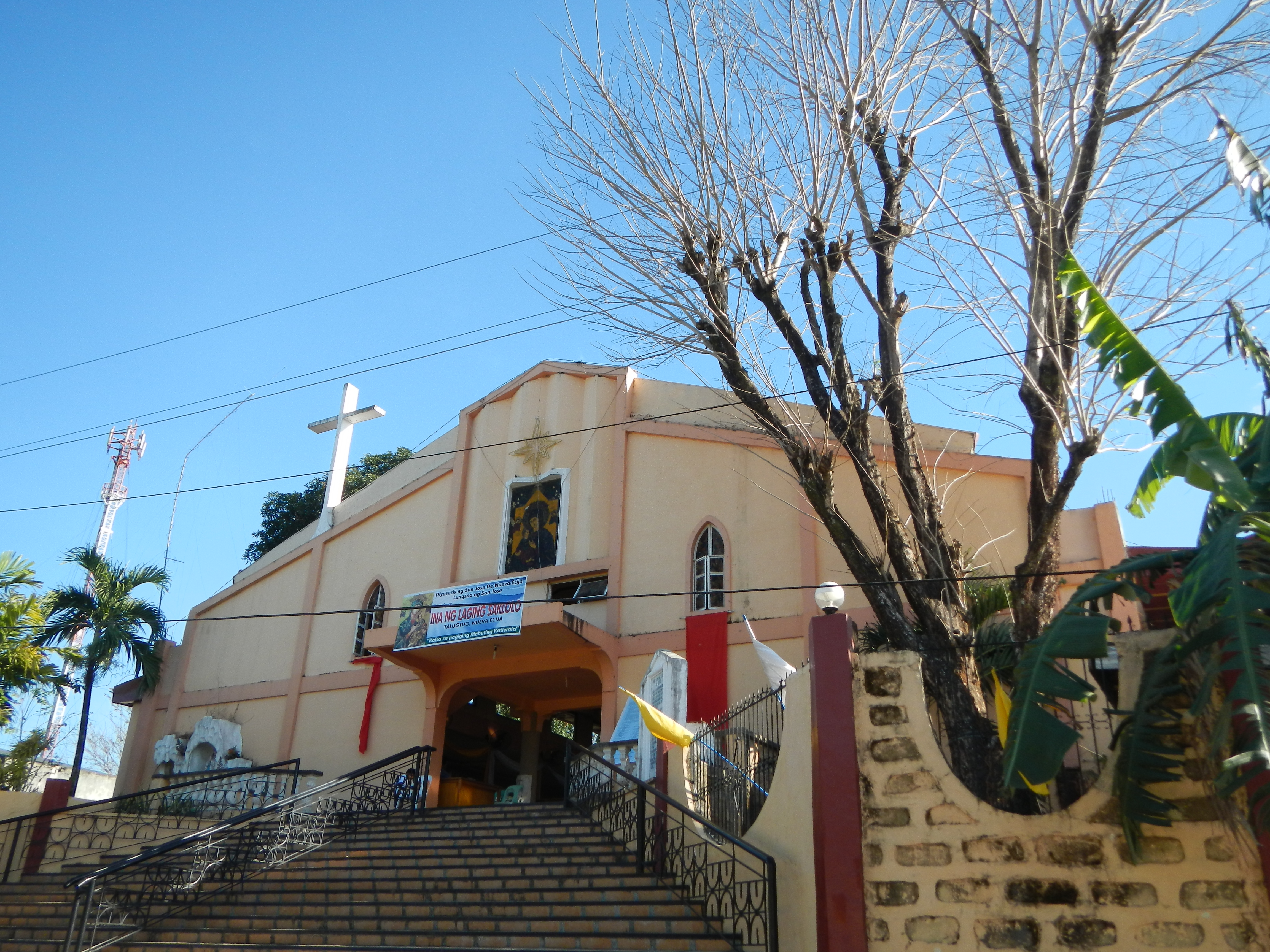 1952 Our Mother of Perpetual Help Parish Church, Talugtug 3118 Nueva Ecija Parish Priest: Fr. Luvimindo V. Sayson Titular: Our Mother of Perpetual Help [1]Vicariate of St. John Vicar Forane:Fr. Richard V. Bena­vente, SOLT[2]The Roman Catholic Diocese of San Jose in the Philippines (Lat: Dioecesis Sancti Iosephi in Insulis Philippinis) is an ecclesiastical territory or diocese of the Latin Rite of the Roman Catholic Church in the Philippines.[3] Talugtug, Nueva Ecija[4][5]